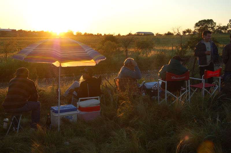 Dakar 2010. People at morning, side road, waiting the competitors to pass. Alpha Corral. Córdoba. Argentina.